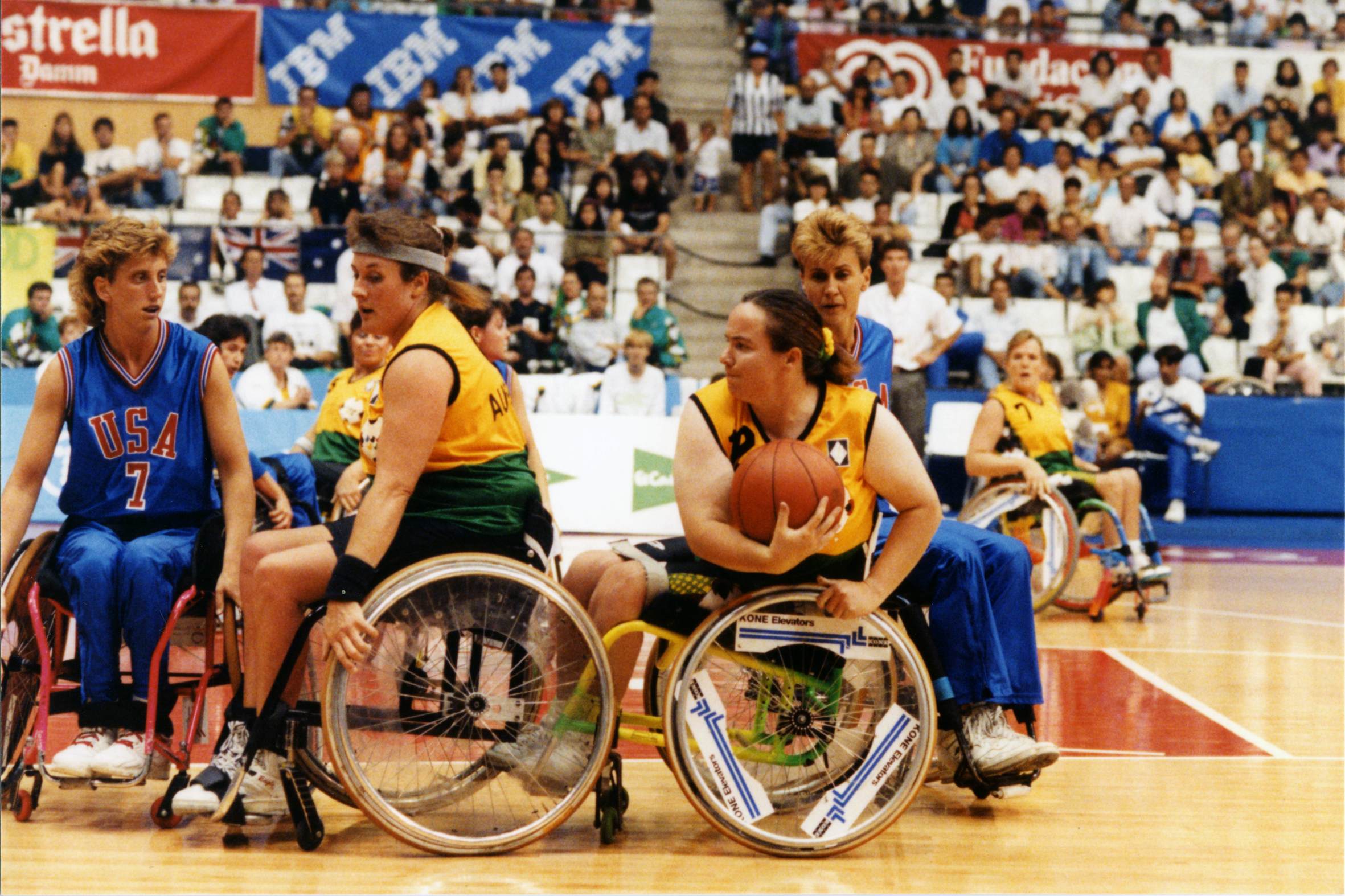 Amanda Carter (with the ball) looks for room behind teammate Sharon Slann for the Australian women's wheelchair team competing against the USA at the Barcelona 1992 Paralympic Games.